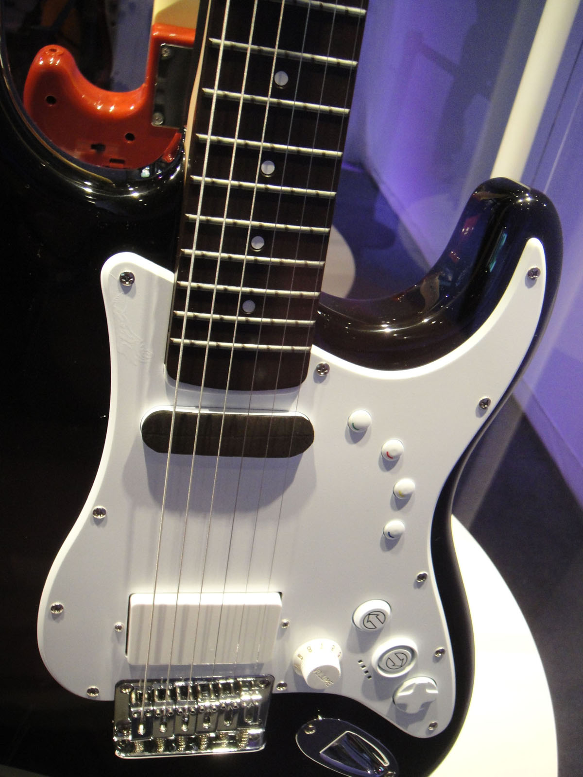 Squier® by Fender® Stratocaster® Pro Controller for Rock Band 3 @ E3 Expo 2010 〝Fender®, Harmonix & MTV Games Partner To Introduce Revolutionary New Rock Band 3 Squier® By Fender Stratocaster® Guitar Controller”, press release (2010-06-11), Harmonix Music Systems, Inc